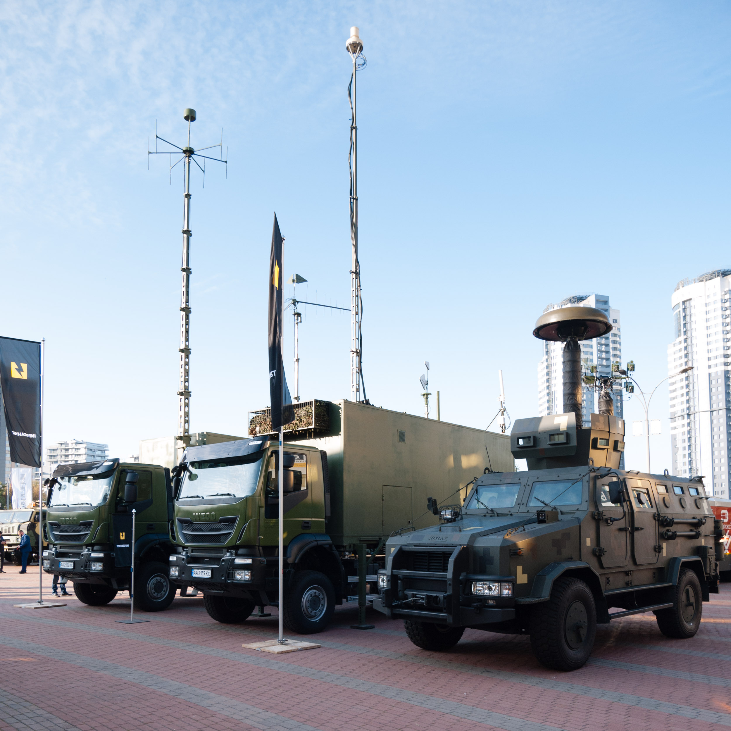 Nota electronic warfare complex (by Tritel) on Kozak-2 armored vehicle (by Practika); Khortytsia-M electronic warfare complex on Iveco vehicle; Khortytsia-R electronic warfare complex on Iveco vehicle. 'Zbroya ta Bezpeka' military fair, Kyiv, Ukraine, 2019